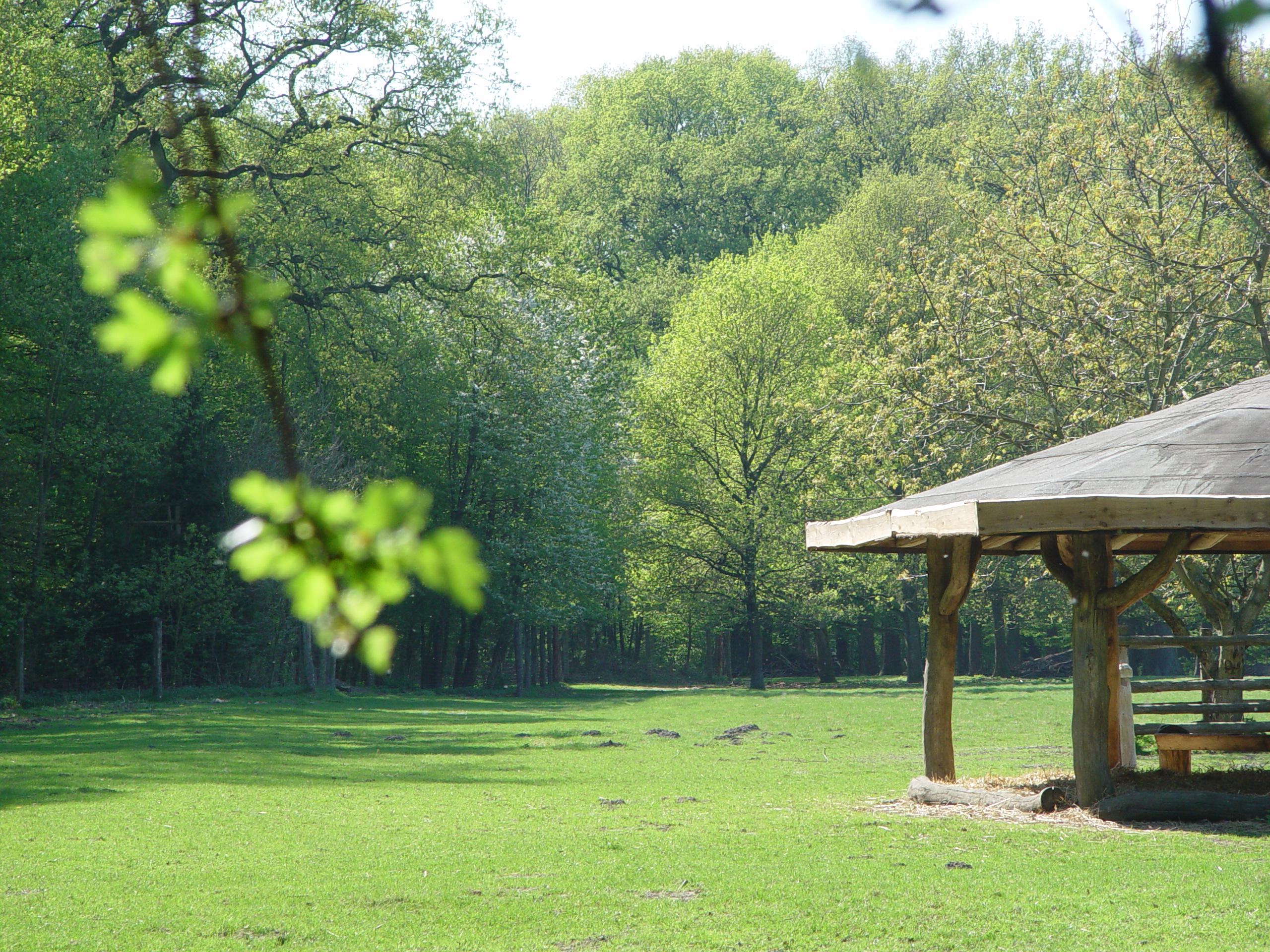 Germany, Hamburg, Park named Niendorfer Gehege